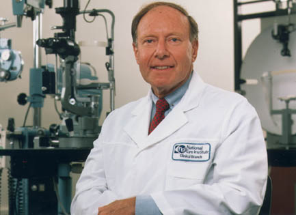 Dr. Carl Kupfer